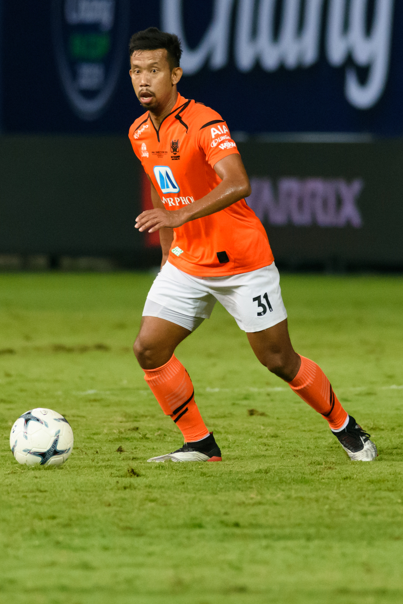 Pathomchai Sueasakul during the Thai FA Cup Final 2019 vs Port FC